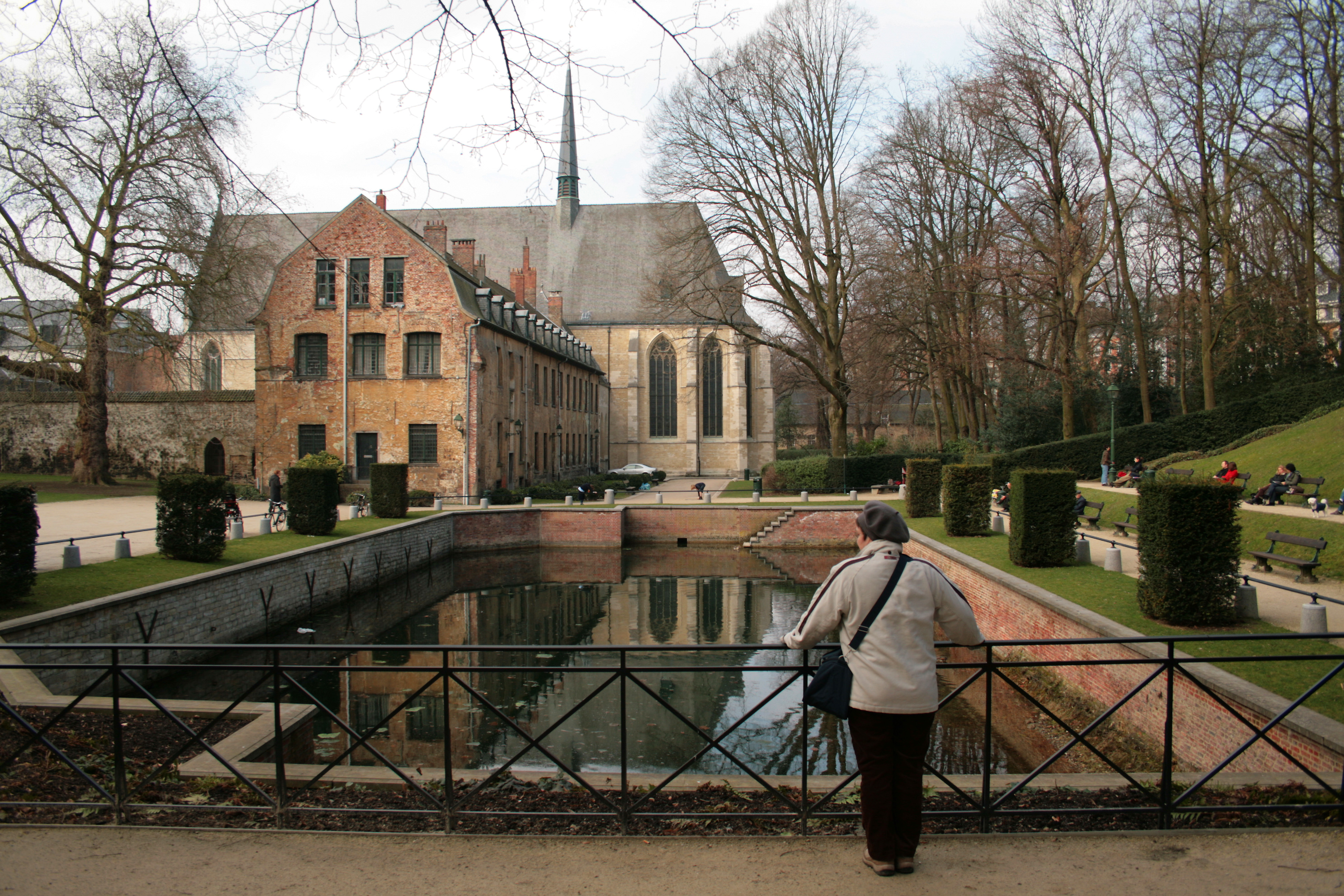 Ixelles (Belgium), abbey church (XIVth century) and gardens of the previous La Cambre Abbey.